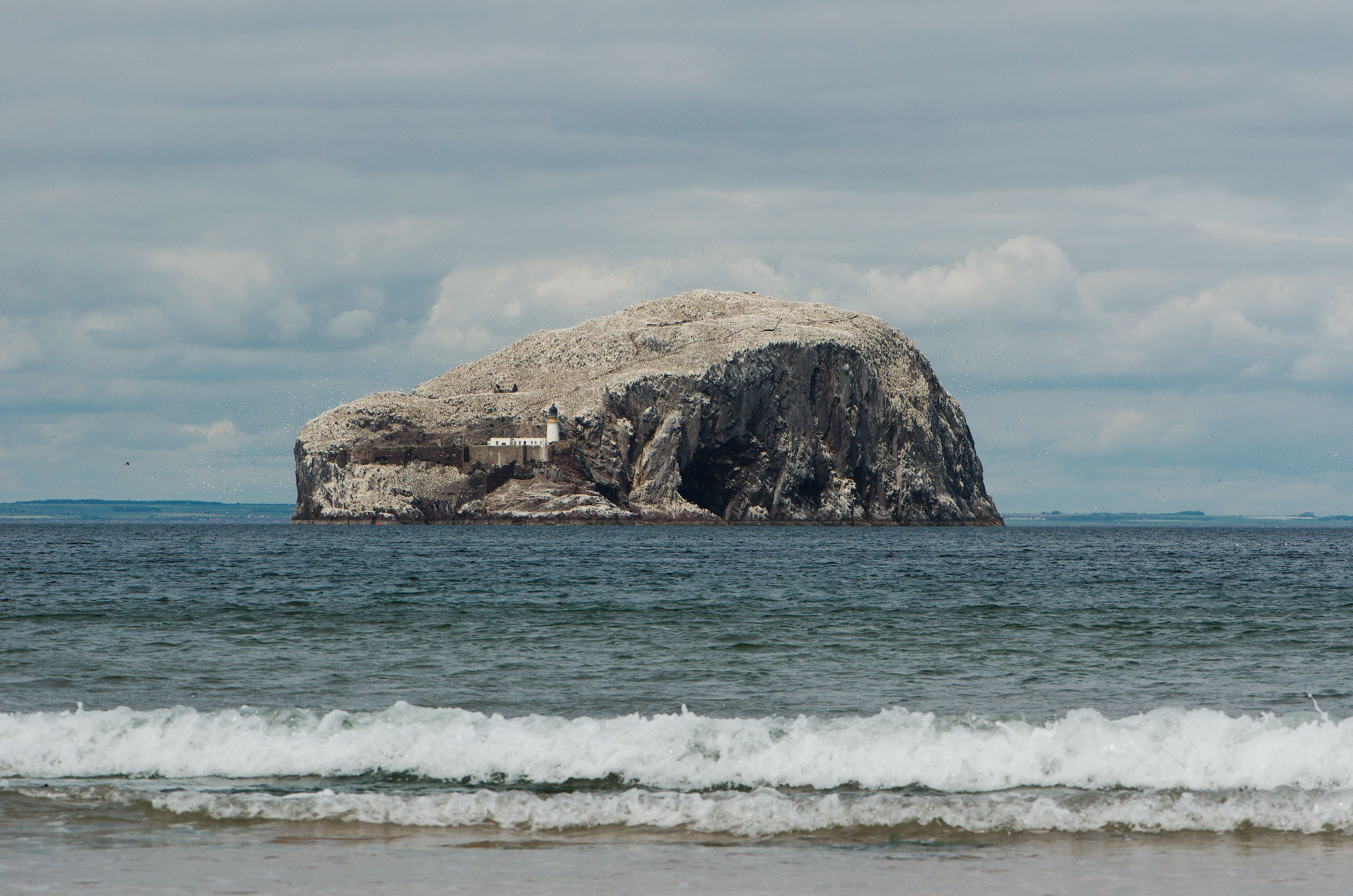 Allemann Fun Sommerausflug 2015